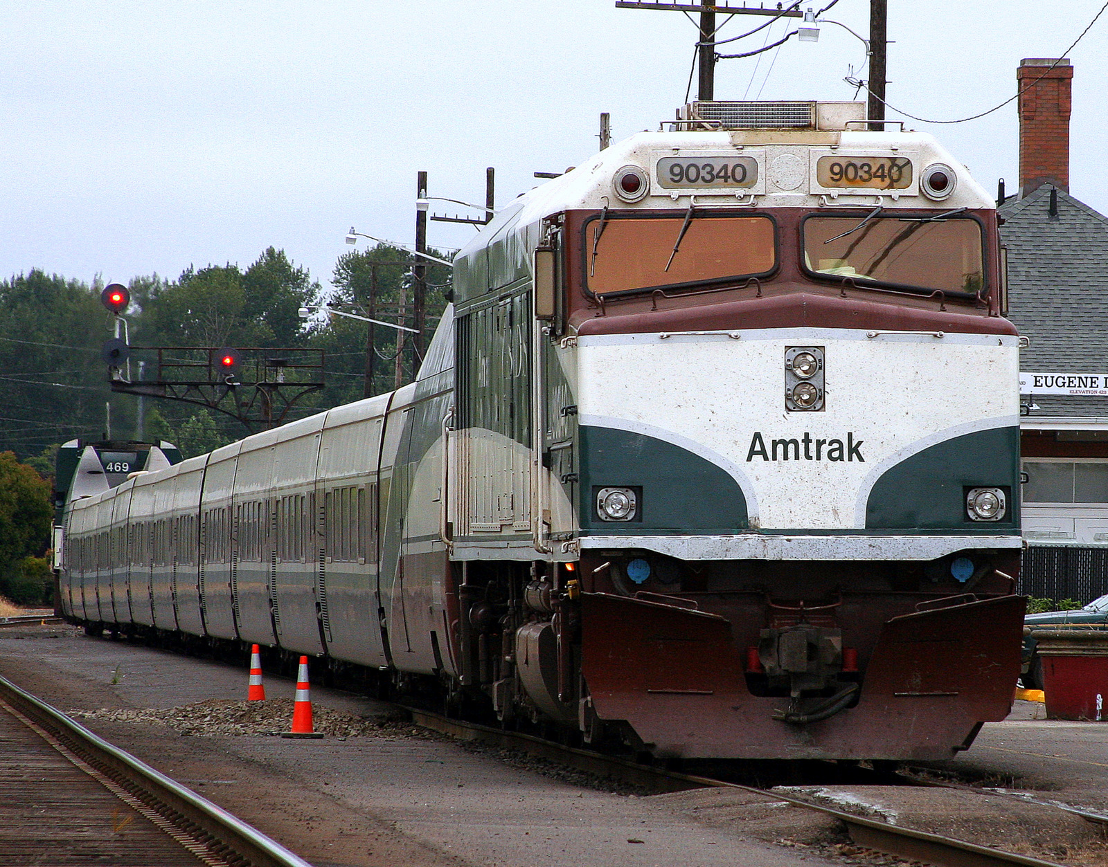 NPCU 90340 leads the Amtrak Cascades at Eugene, Oregon in the USA.